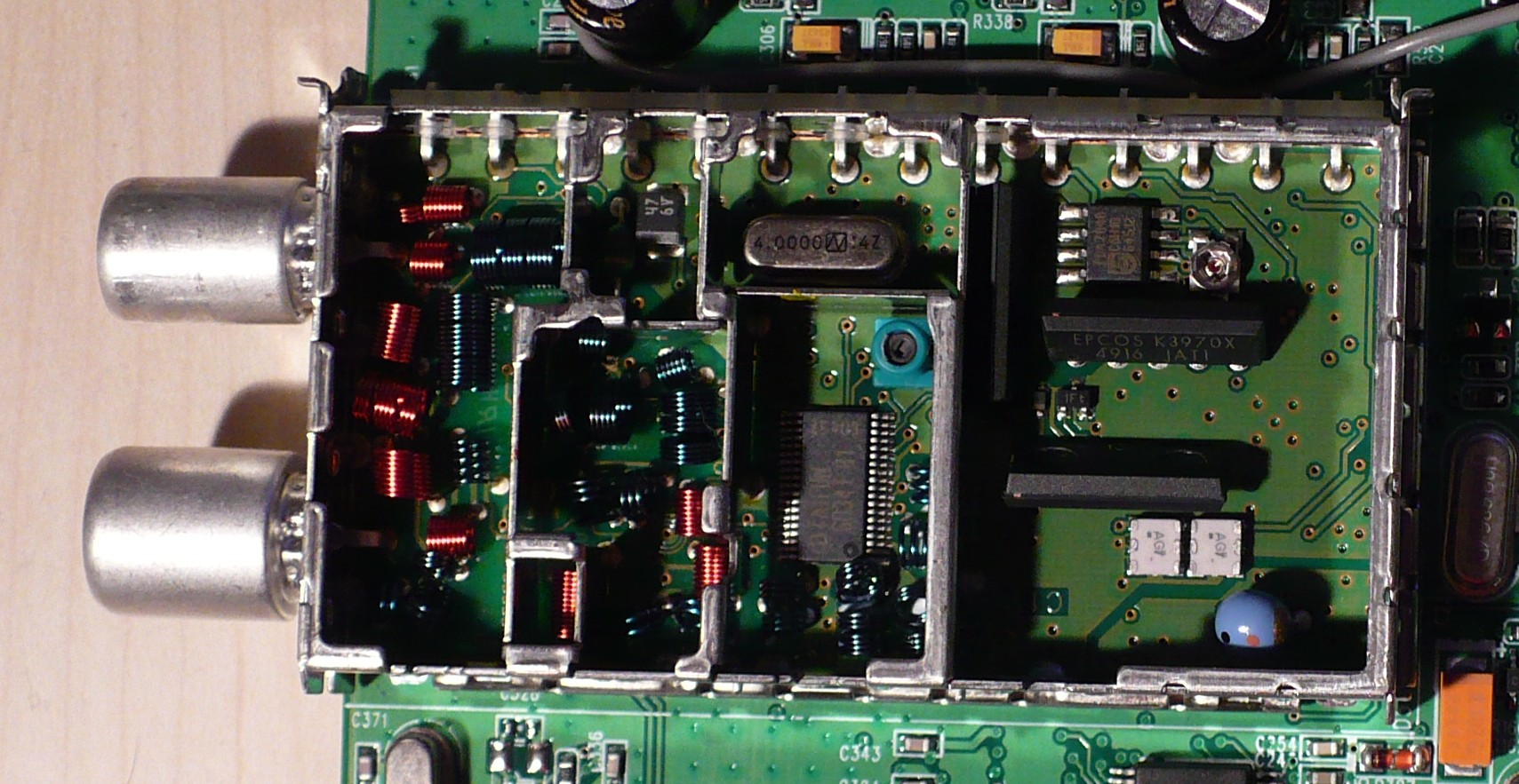 Philips Tuner for DVB, analogue TV and FM radio.